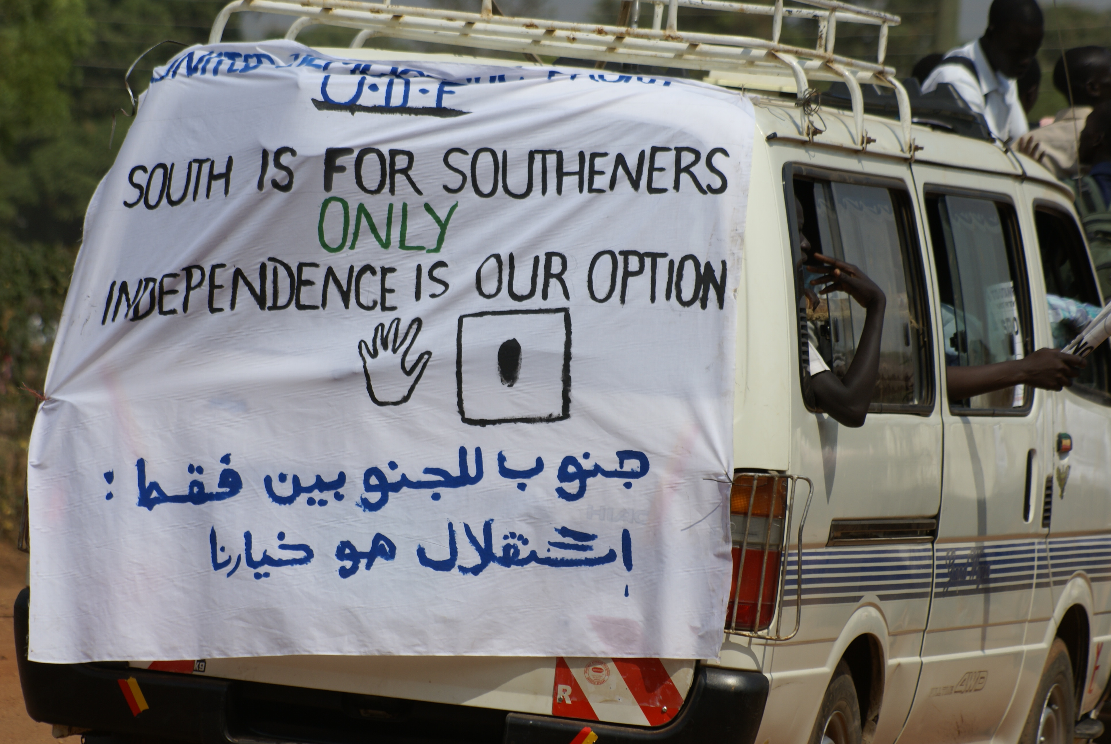 The first civil war between the dominant north and the south, which wanted regional autonomy, lasted till 1972. Half a million people died over the 17 years of conflict.